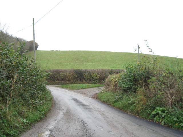 Lane at Plas Yn Dinas